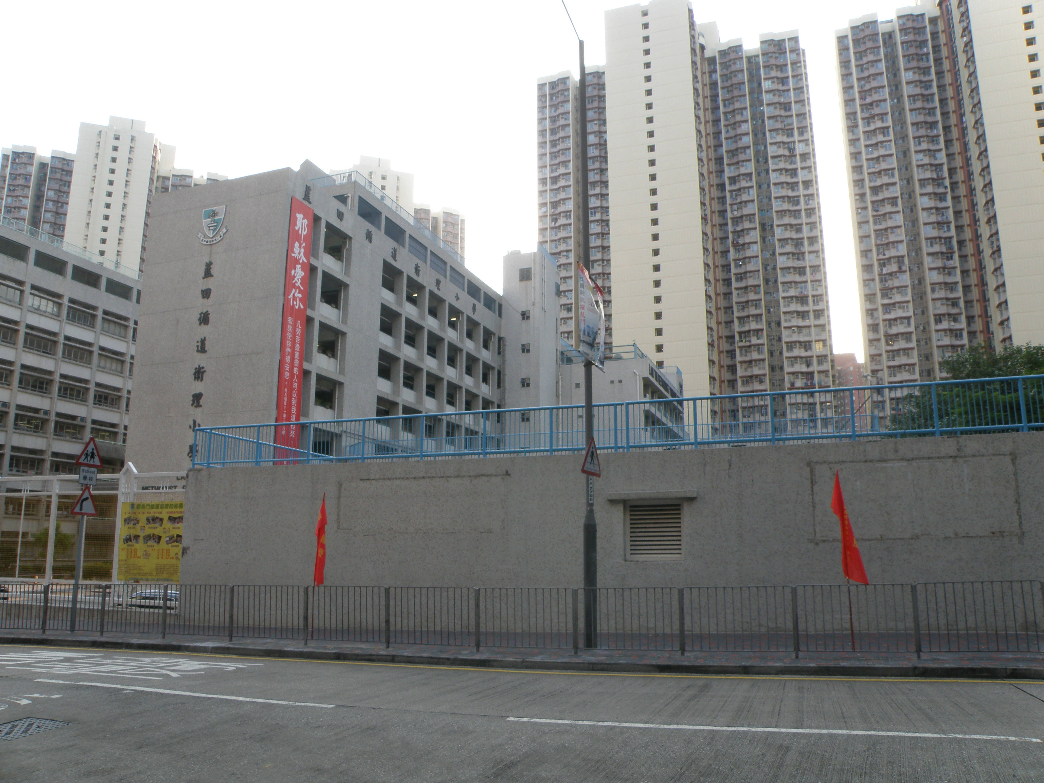 Lam Tin Methodist Primary School in Lam Tin, Hong kong.